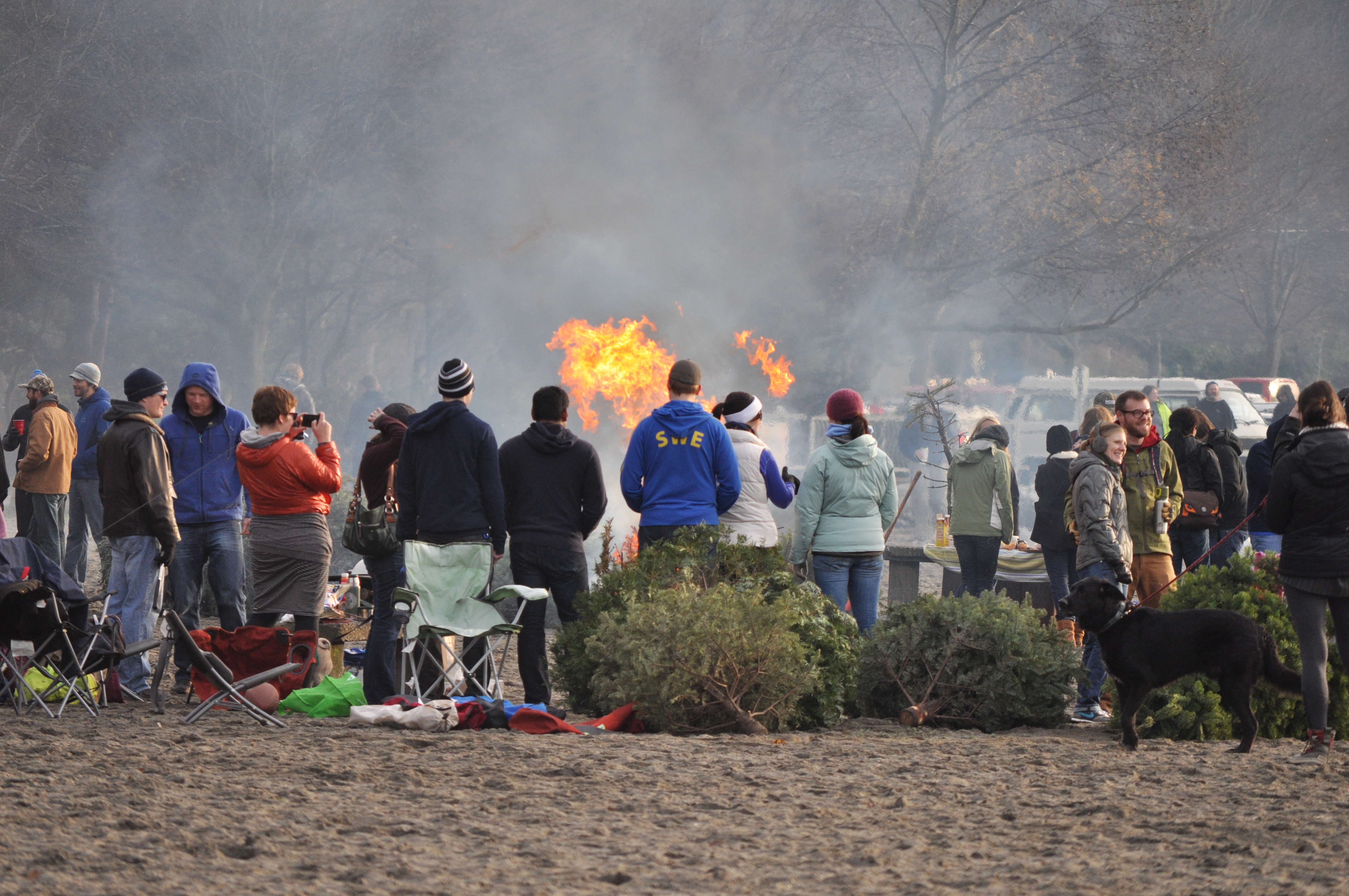 Burning Christmas trees at Golden Gardens Park, Seattle, Washington, USA, New Years Day 2013. An old Seattle tradition. With few exceptions, the trees are burned in the established metal fireplaces in the park.